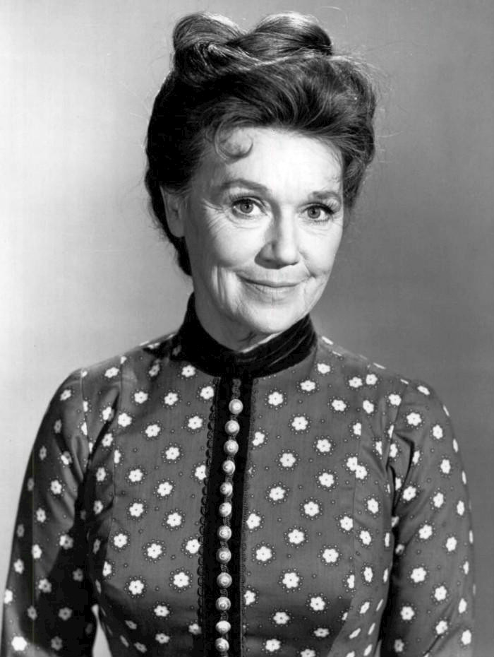 Photo of Jeannette Nolan as Holly Grainger, the wife of Clay Grainger (John McIntire) from the television program The Virginian. She was also the "real life" wife of McIntire.